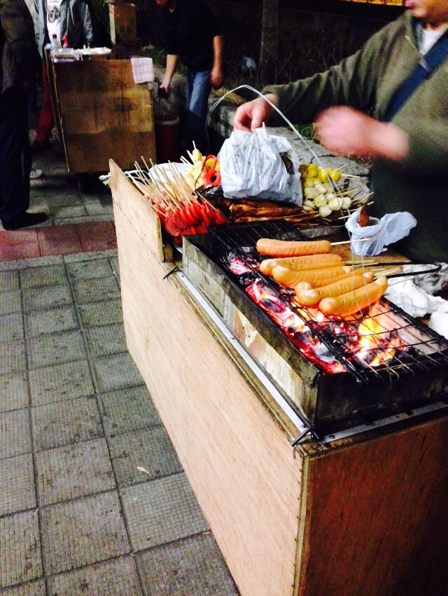 Barbecued Sausage Stick Sold at a footpath in Hong Kong